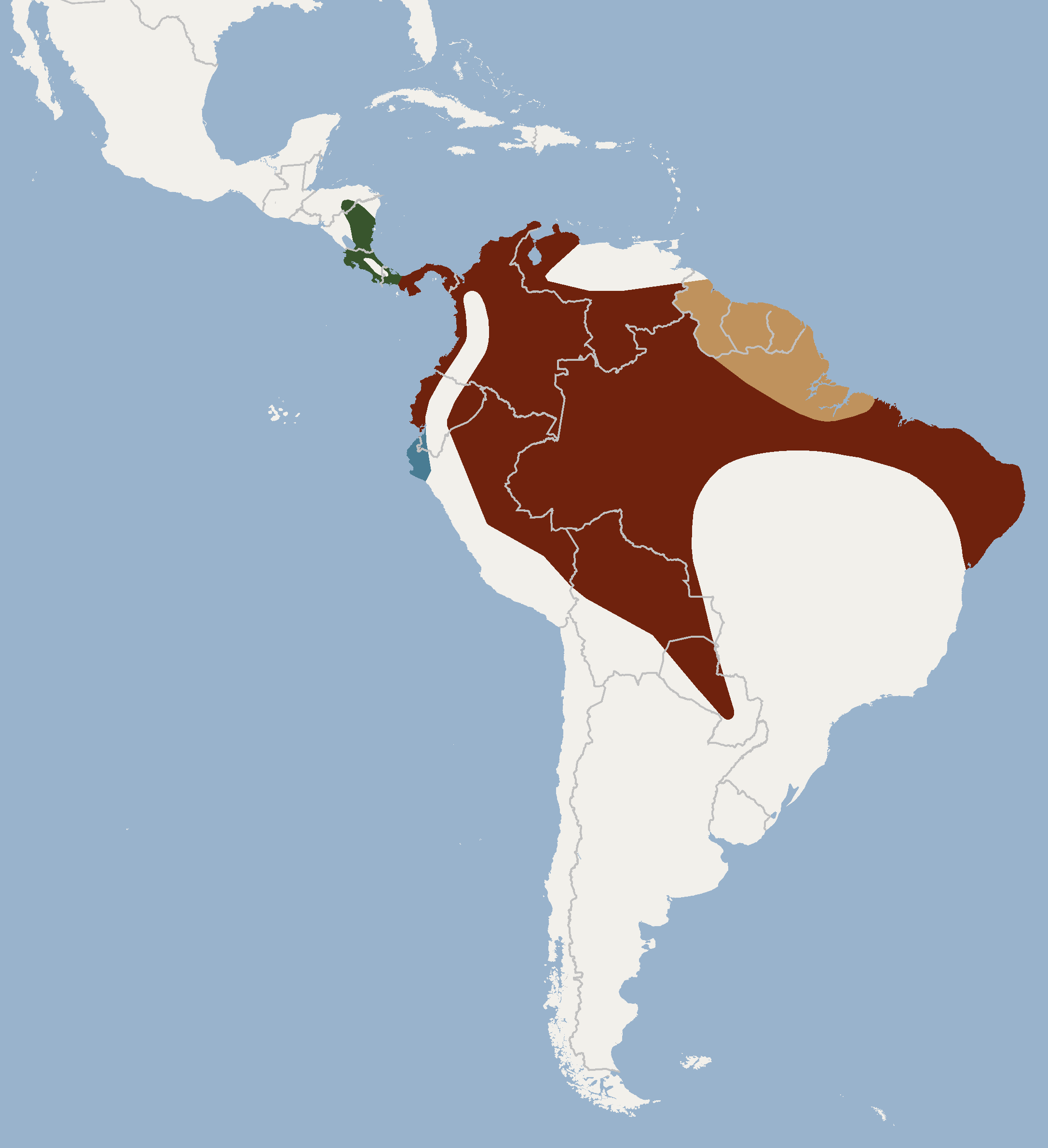 Geographical distribution of Lophostoma silvicolum according to Gardner, 2008 and Reid, 2009 L.s.silvicolum L.s.centralis L.s.occidentalis L.s.laephotis